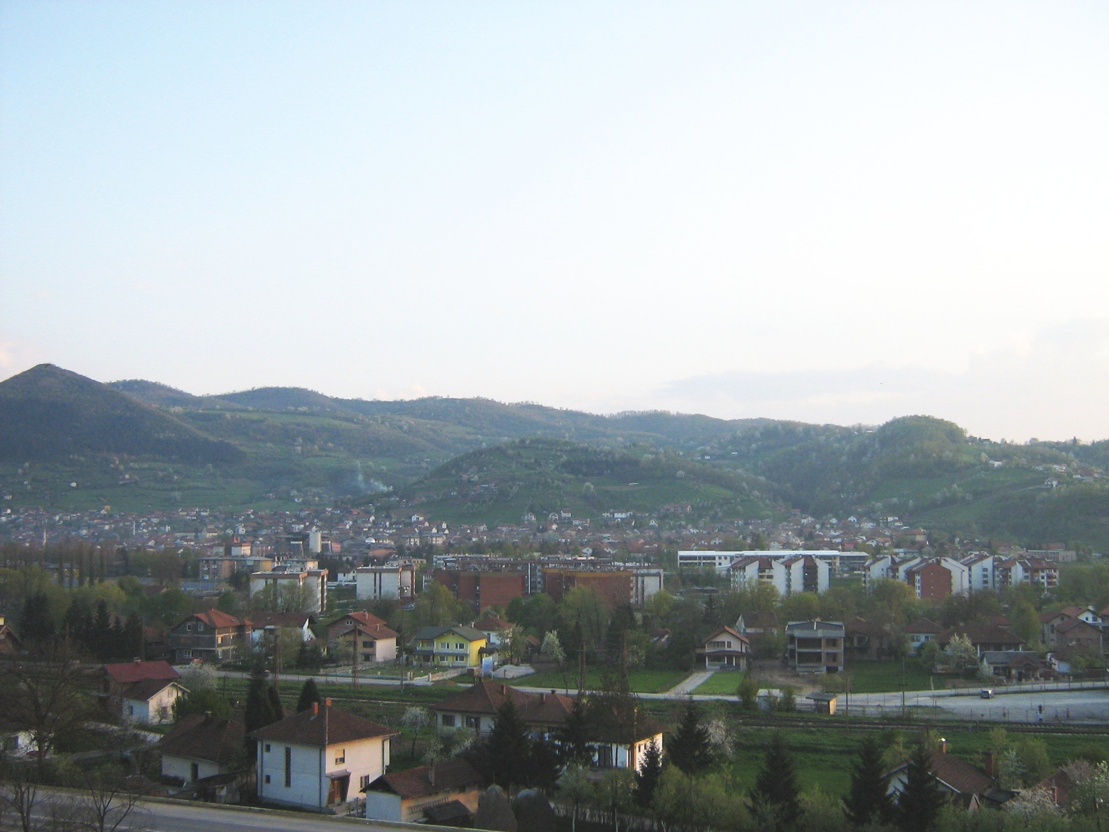 Visoko from outside